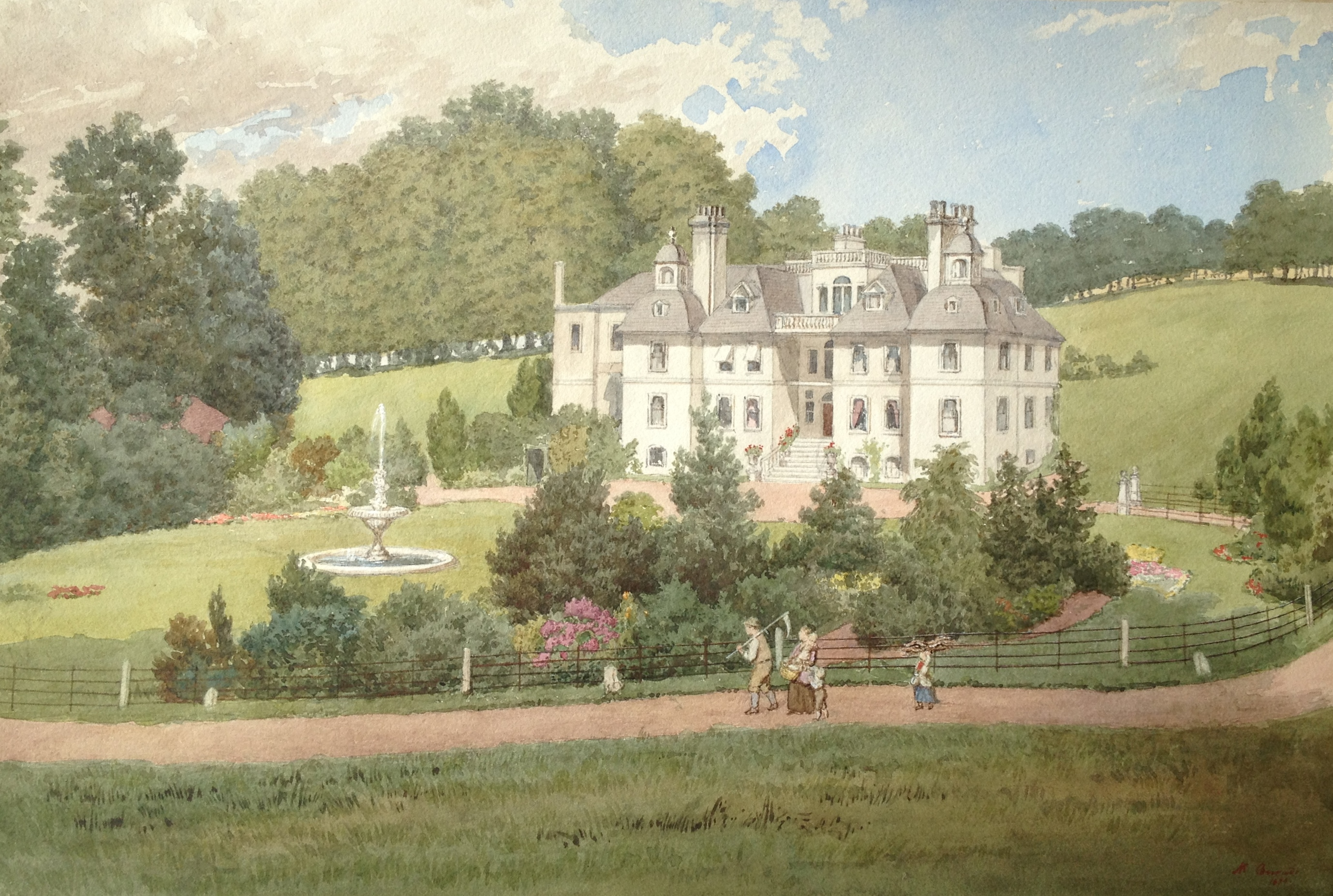 Painting of Marden Park Manor Surrey, painted about 1869